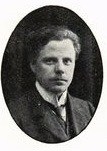 Swedish psychiatrist Nils Anton Nilsson. b. 1880, d. 1933.